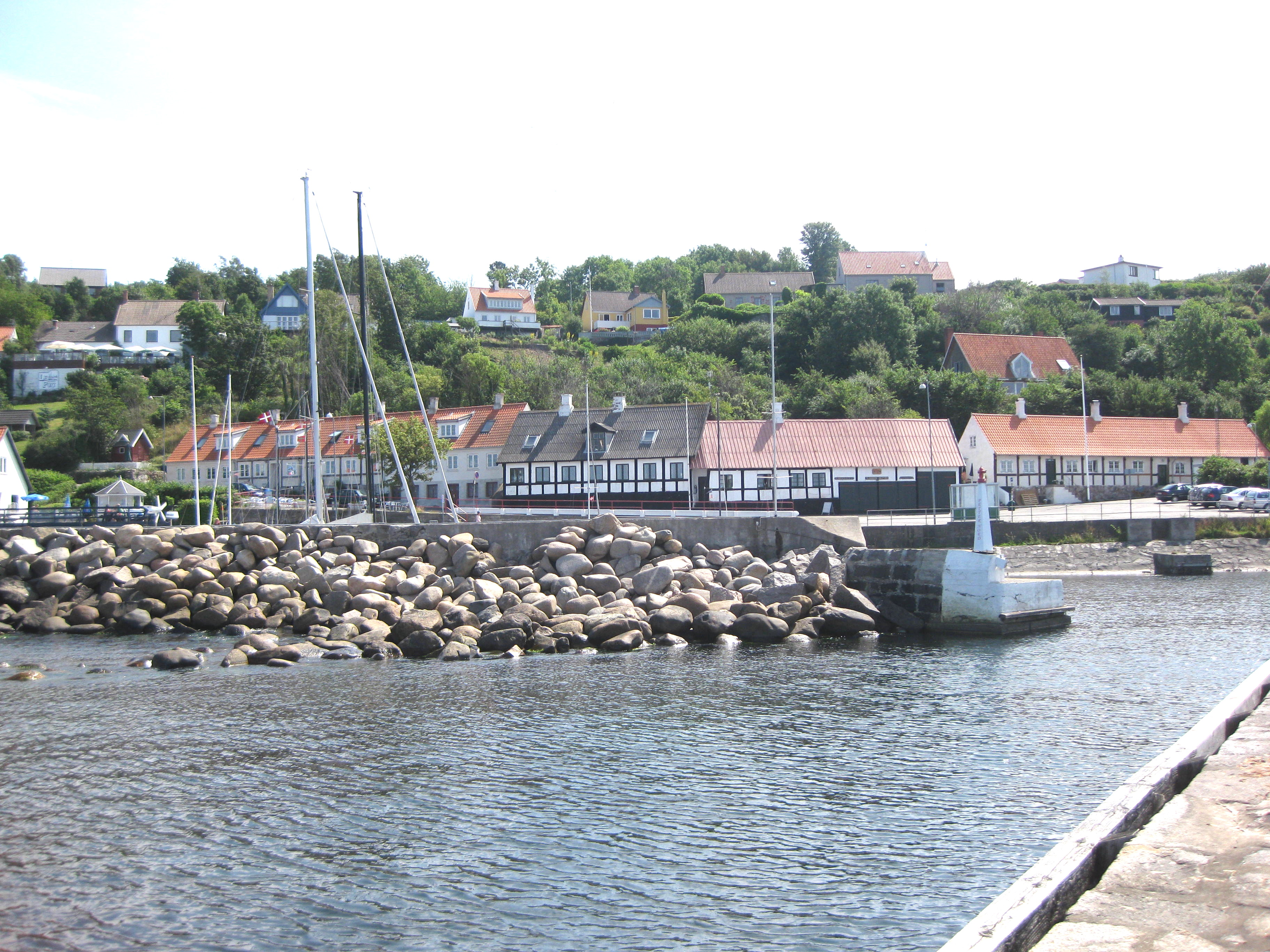 The habour of the fishing village "Vang", located on the island Bornholm in east Denmark.